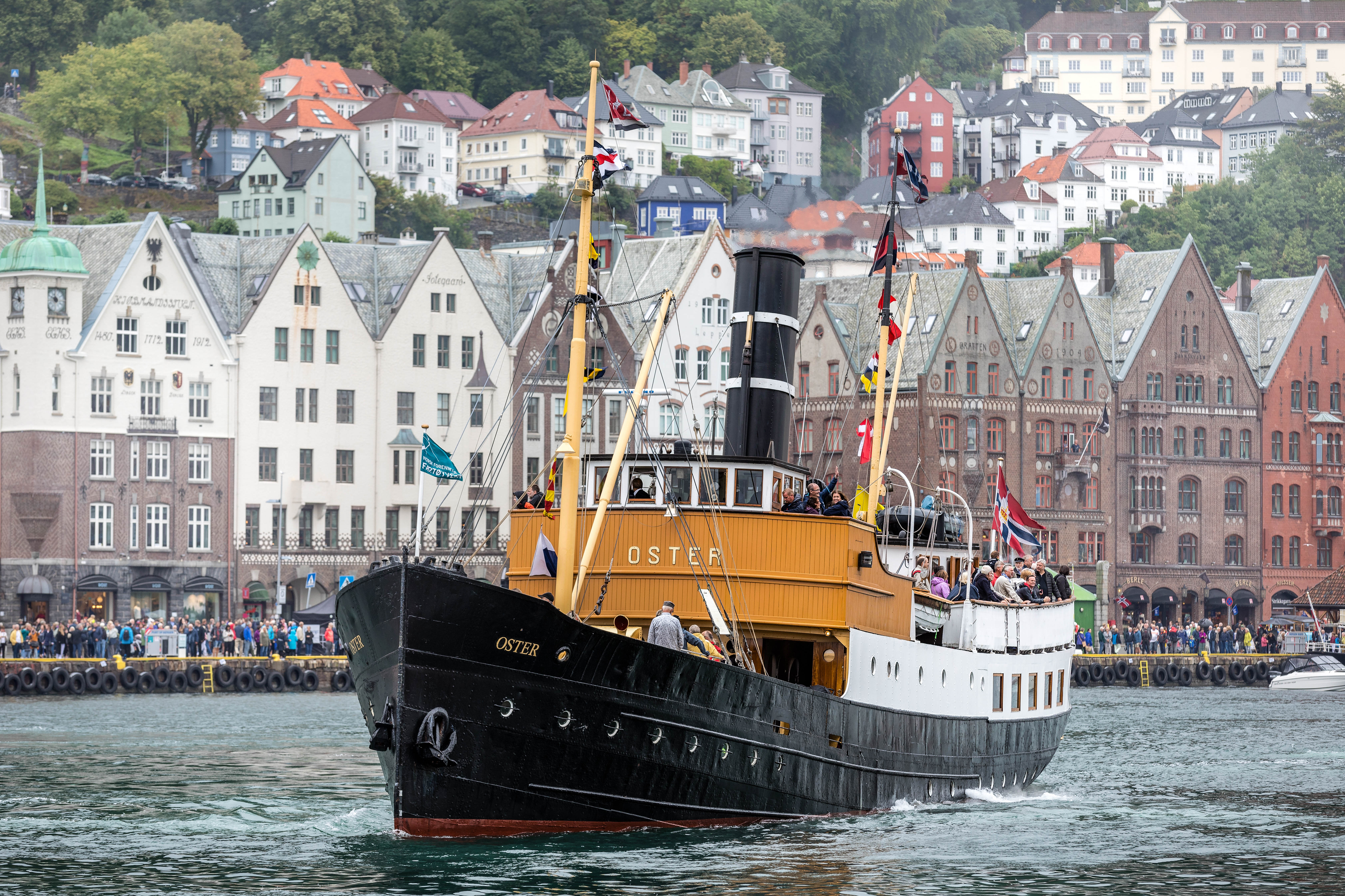 Steamship SS Oster heading out from Vågen in Bergen during the the third day of the event Fjordsteam 2018, a maritime heritage festival that took place between 2 and 5 August 5 2018 in Bergen, Norway.The photo has been edited from the original in the following way: Some de-haze, a bit of contrast and a little clarity on the ship. Increased haze and white some at the top and sides. Added de-haze and clarity to the water. Cloned out UFO down left corner.